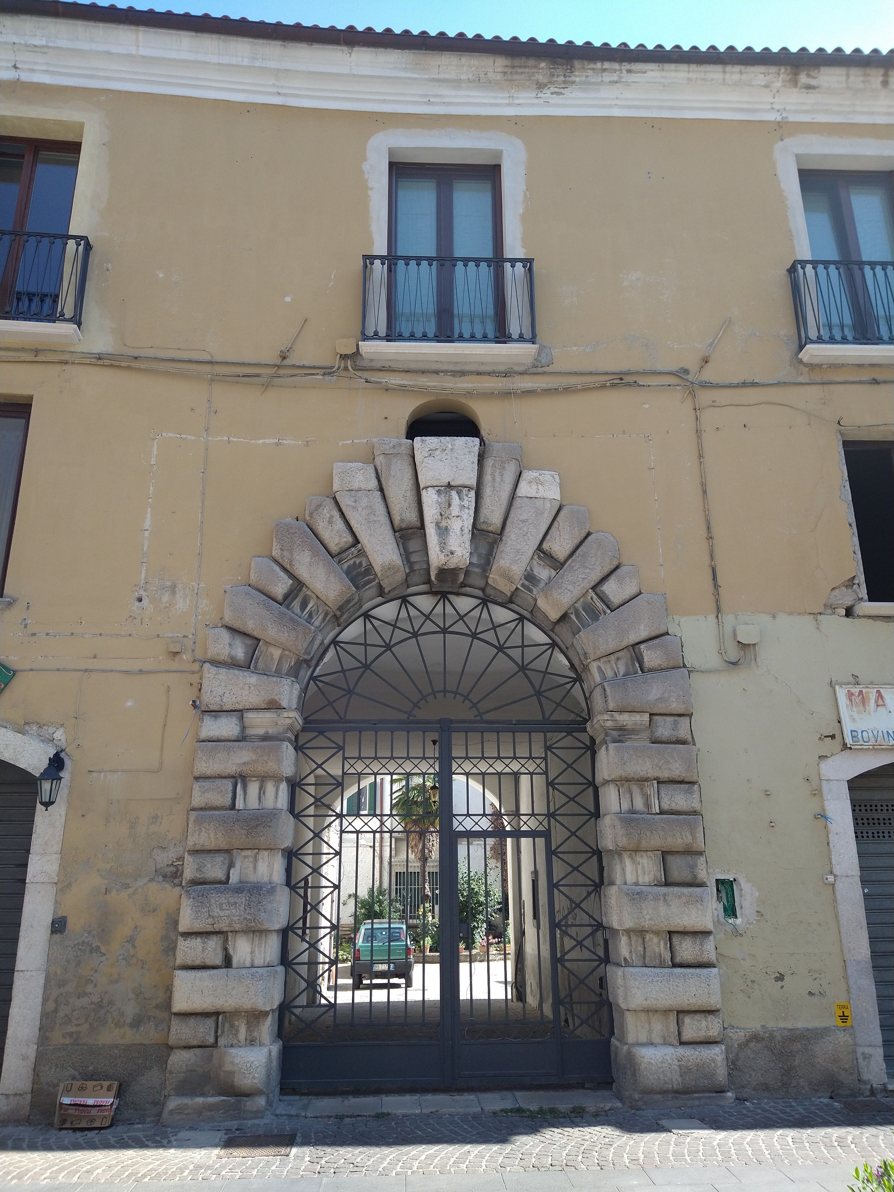 Portal of Palazzo Pignatari in Potenza, Italy.